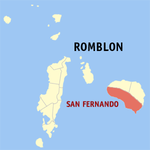 Map of Romblon showing the location of San Fernando